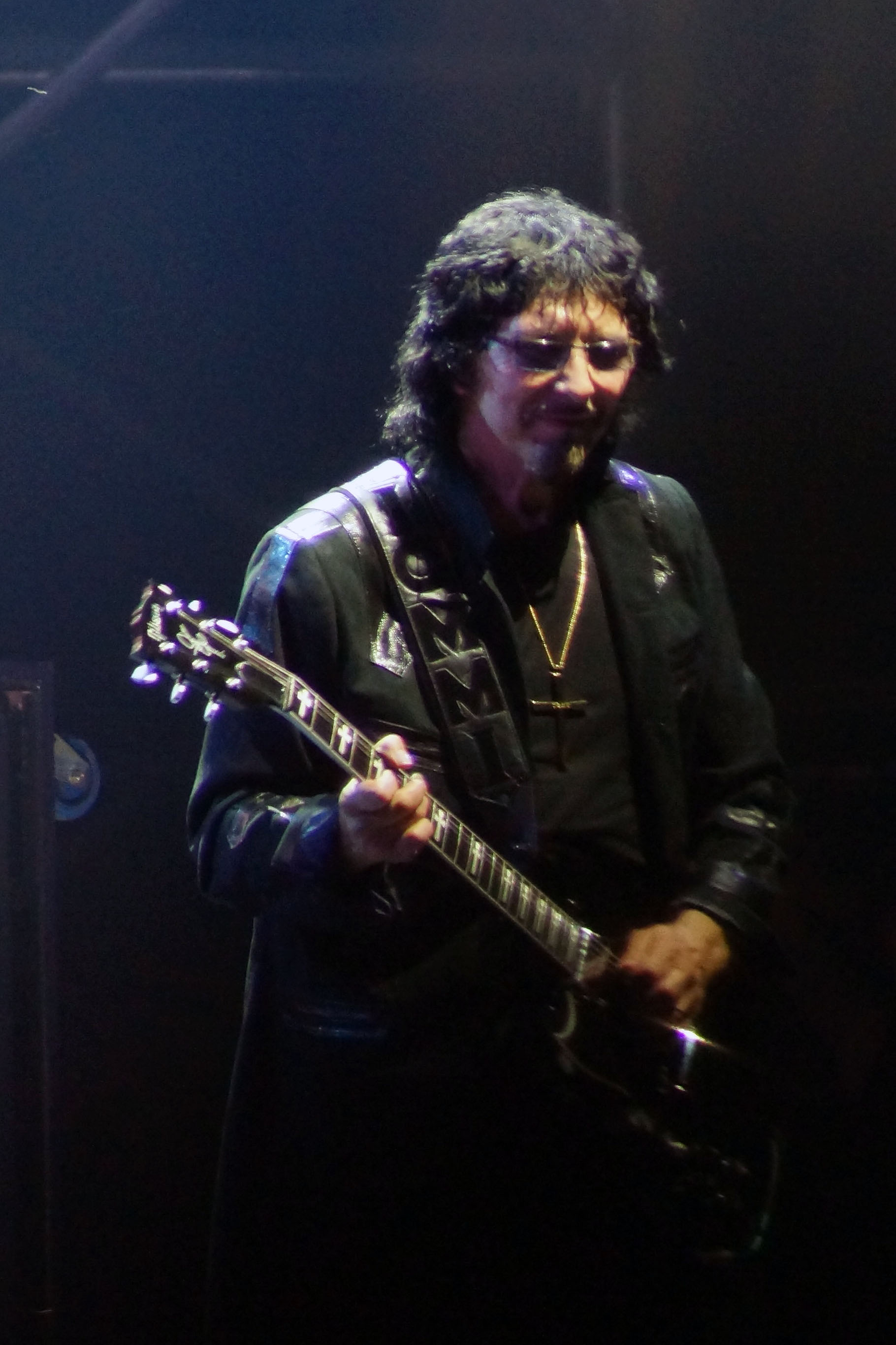 Tony Iommi of Black Sabbath playing at Lollapalooza on 3 August 2012.